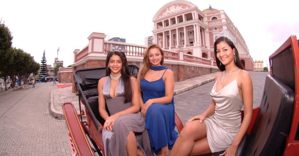 Peladão